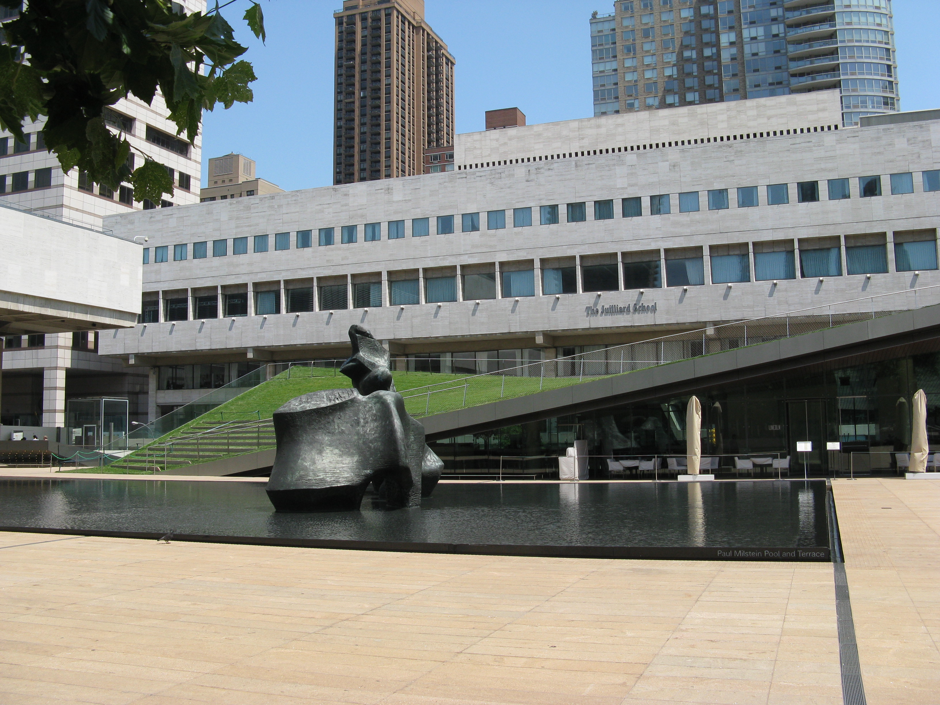 Juilliard School.